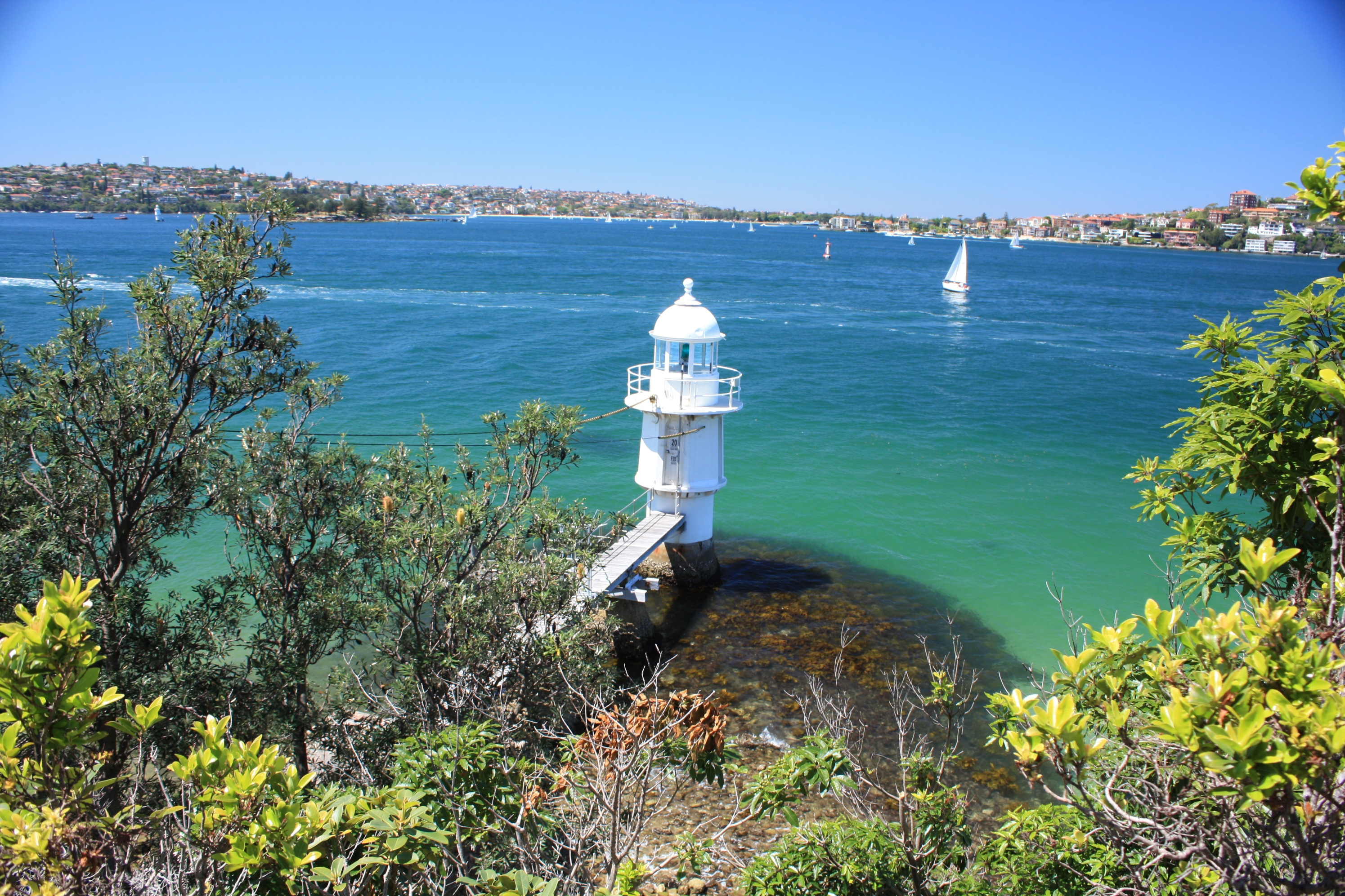 Bradleys Head Lighthouse - Sydney Harbour